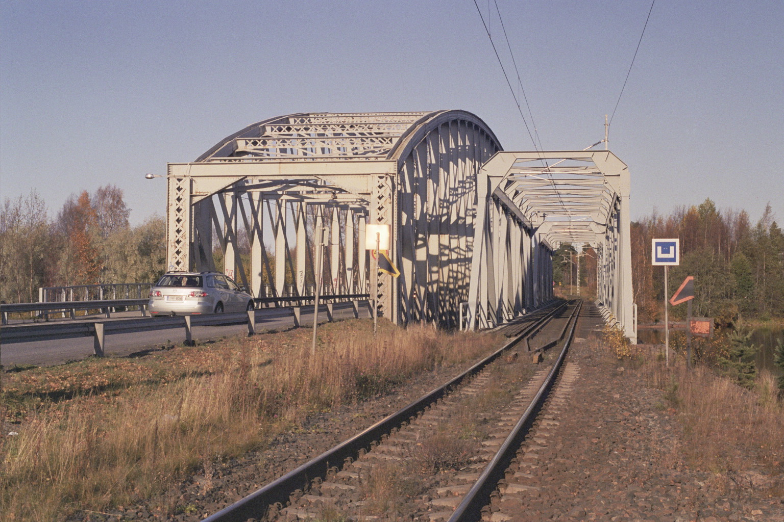 The Rautasilta (Iron Bridge) bridge crossing the Oulu River in Oulu, Finland. It was built in the 1880s. The railway bridge on the right is newer, built in 1964.